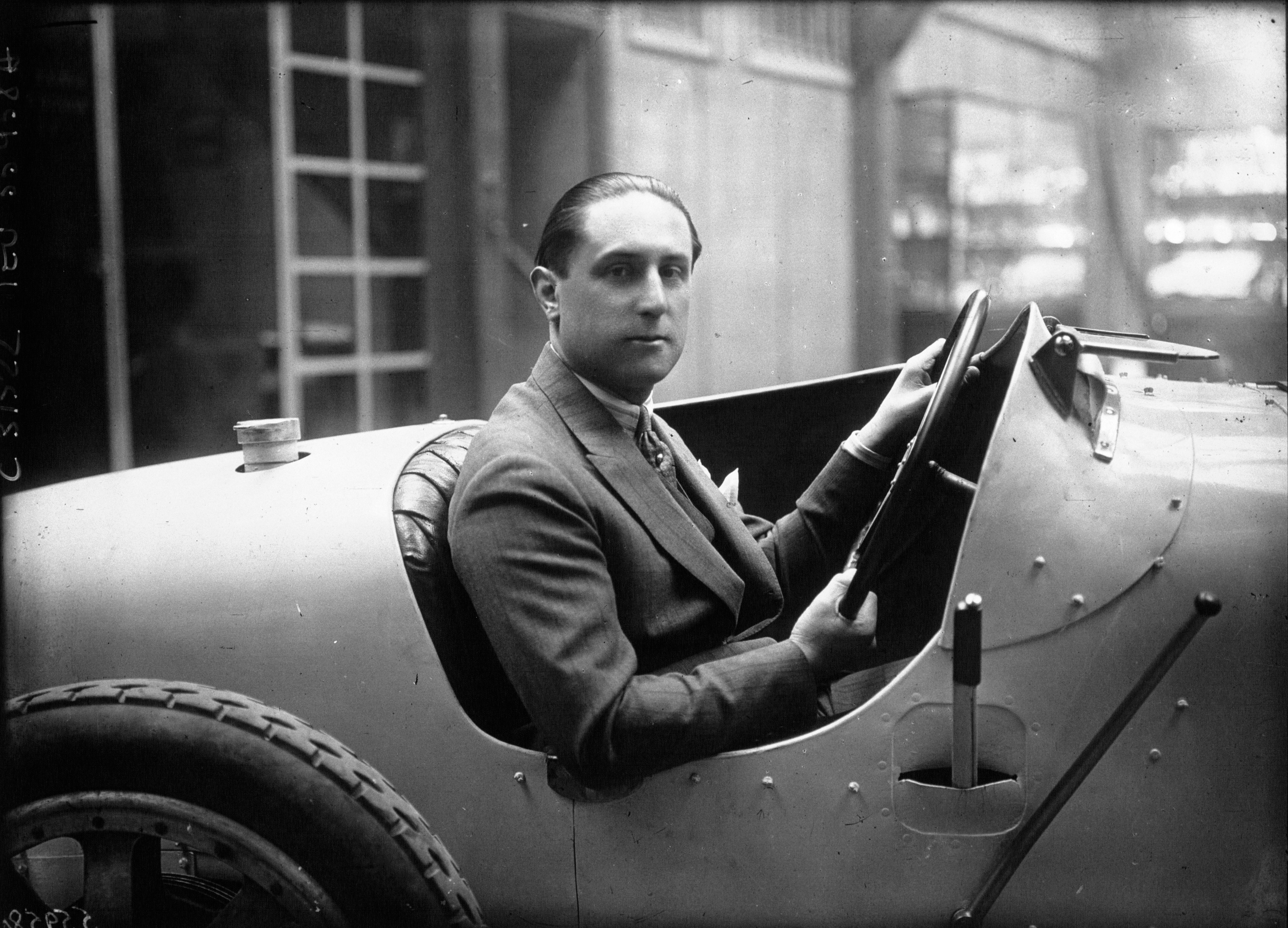 Mario Lepori in a Bugatti.